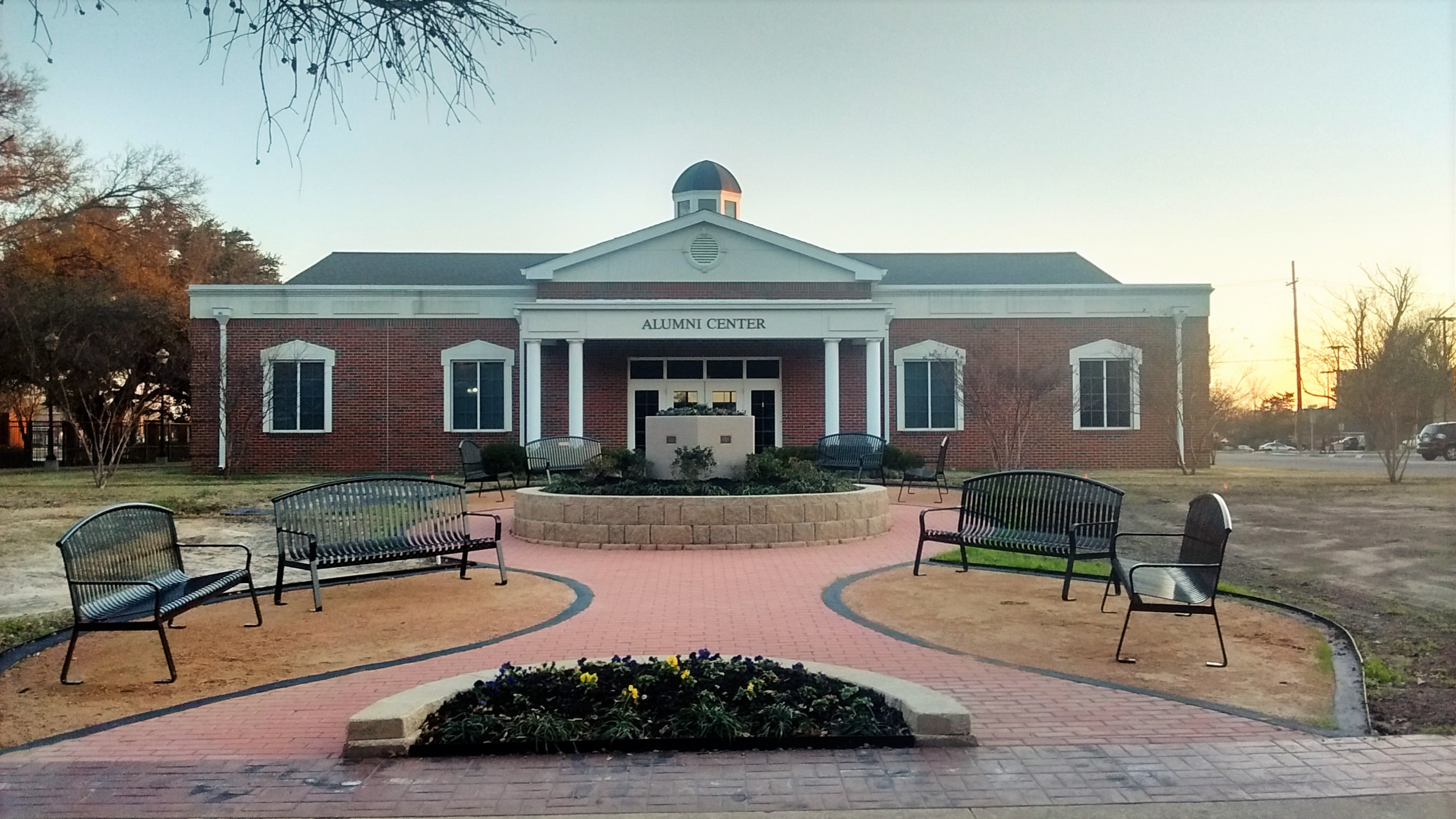 The Alumni Center at TAMUC